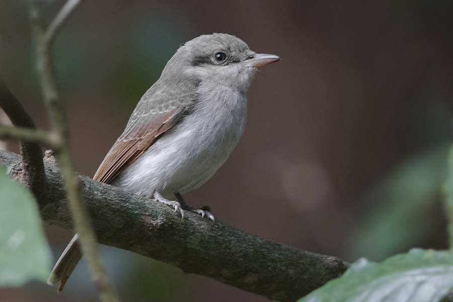 The species Large Woodshrike had been photographed from Barambubu birding trail at Uttarakhand, India on 02.02.2015. during the birding expedition of GoingWild.